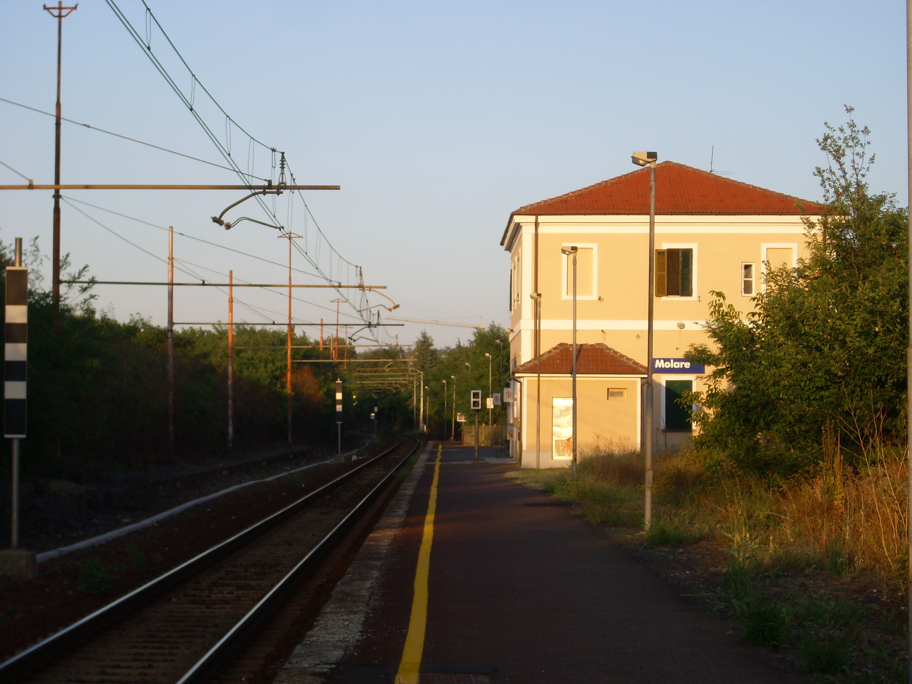 Molare train station.